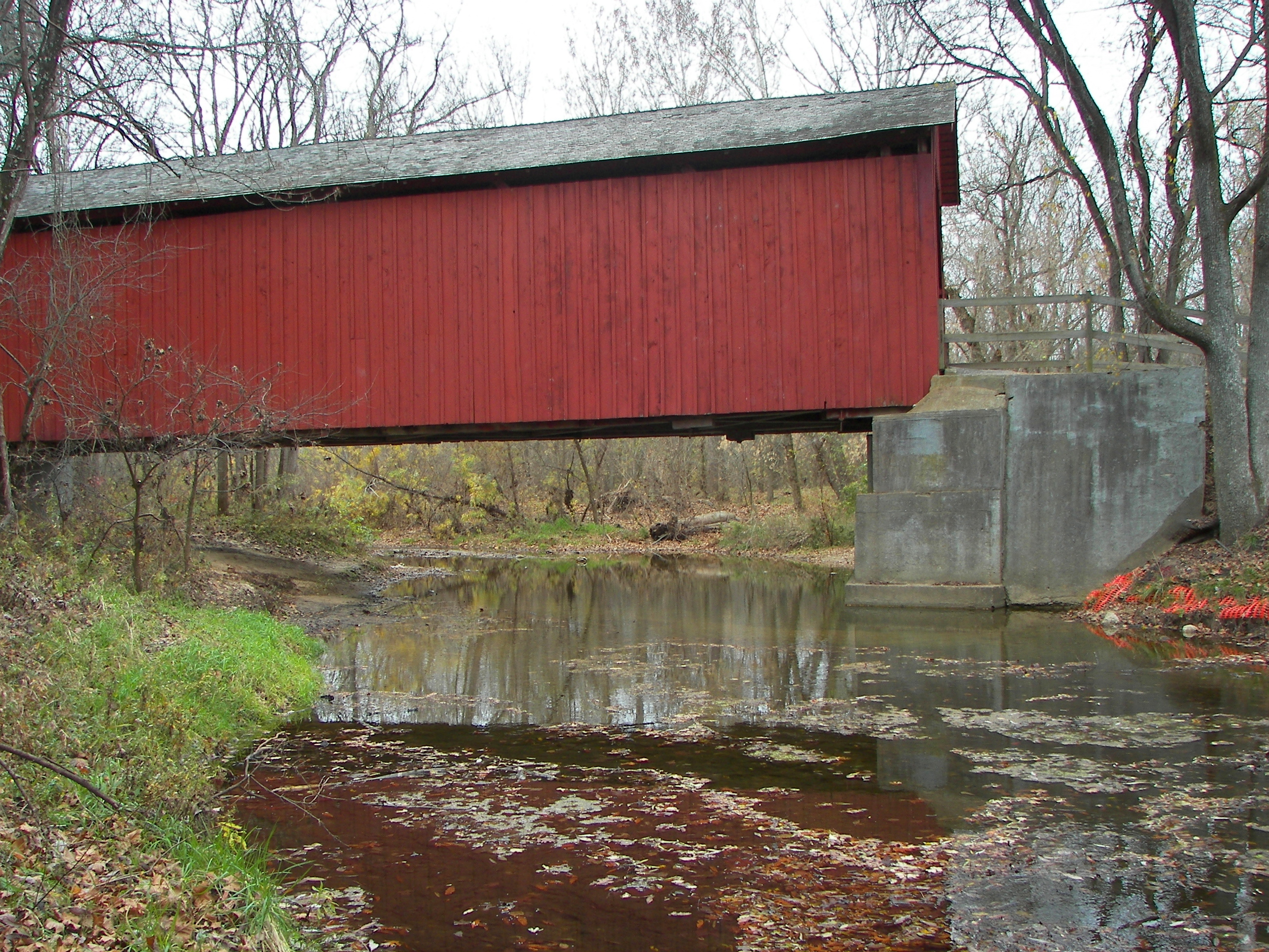 Sandy Creek Covered Bridge in Jefferson County, Missouri. Contrast and saturation have been modified; otherwise the image is exactly as recorded by the camera.